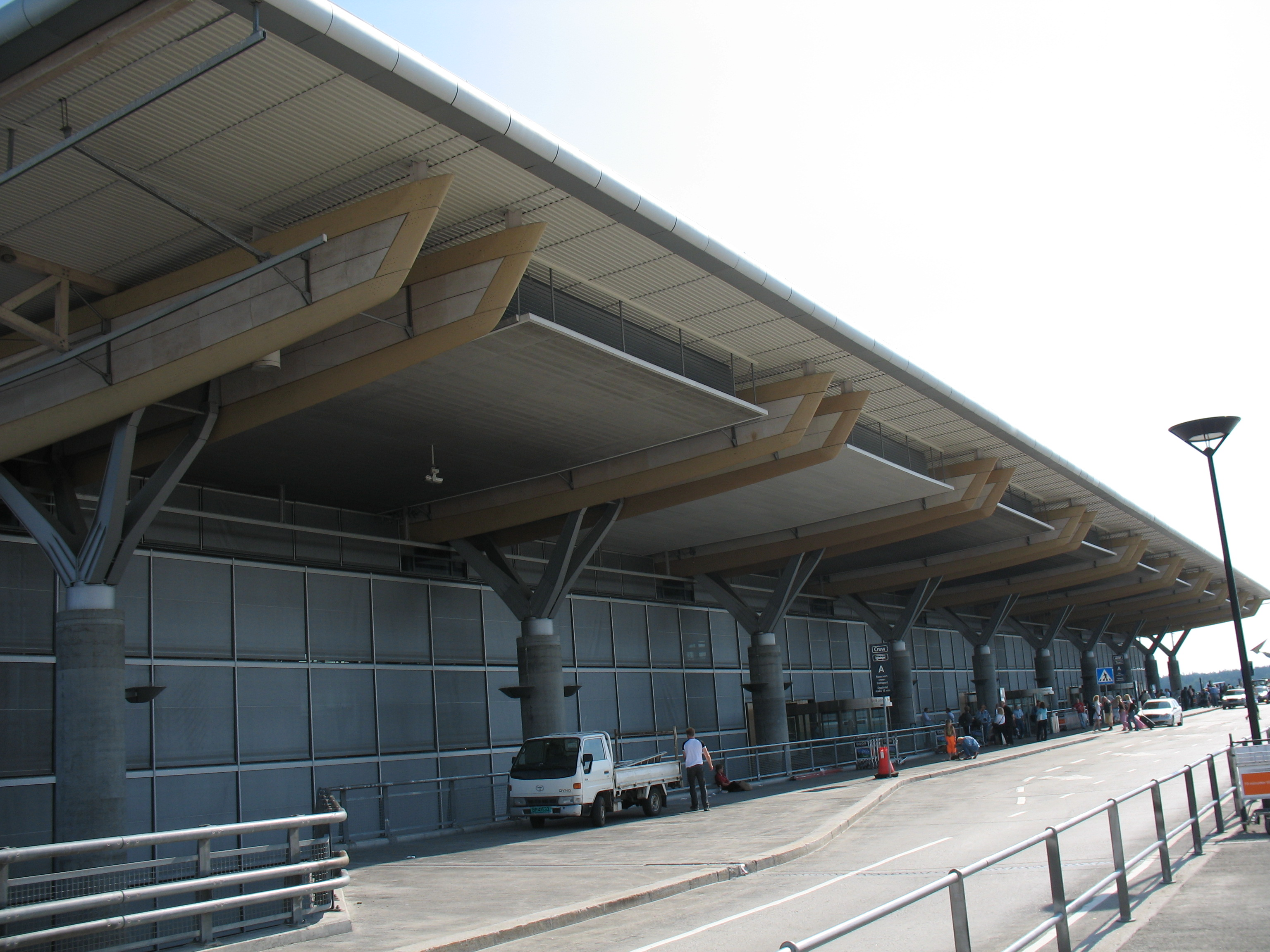 Oslo Airport Gardermoen, Norway